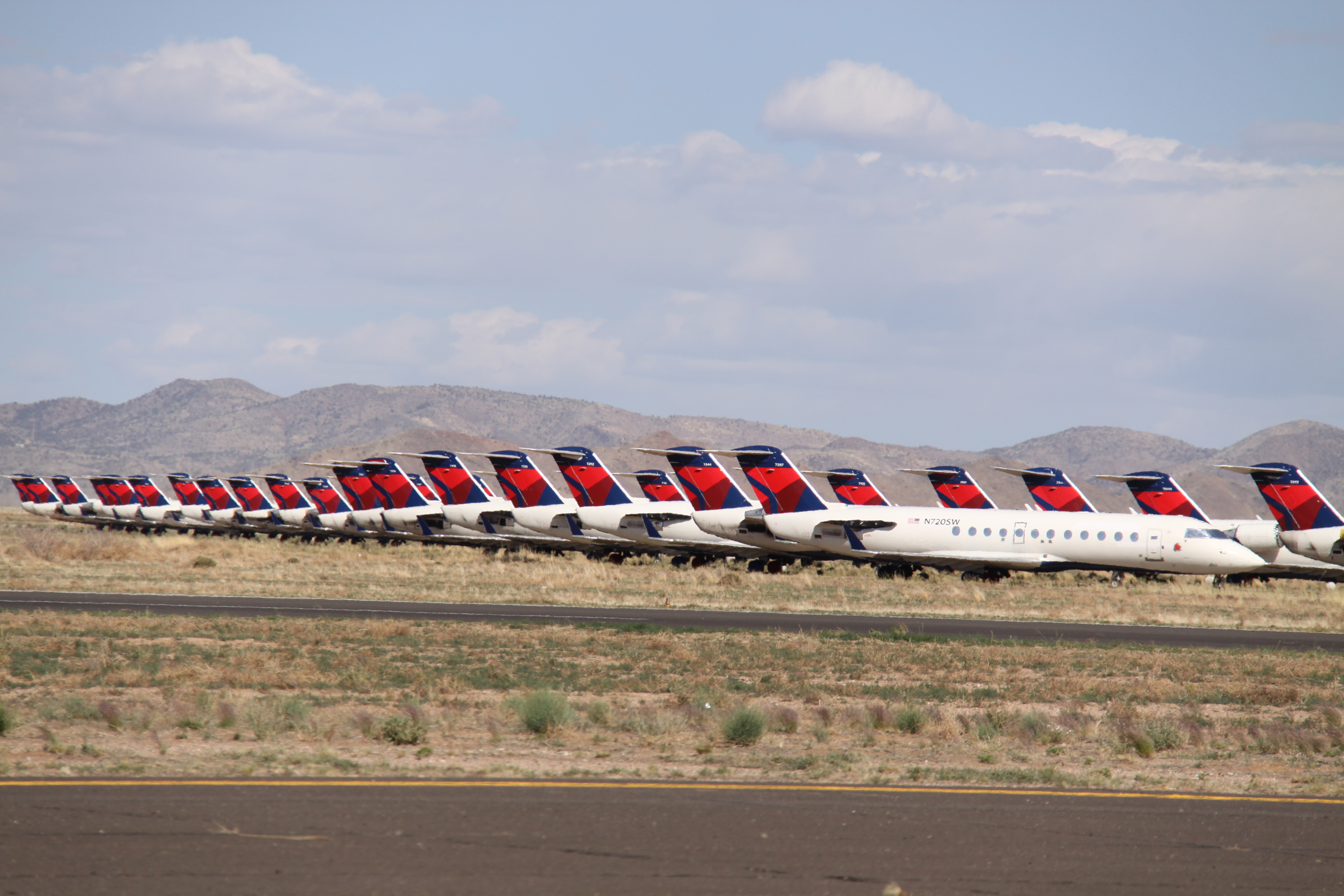 At Kingman Airport ( Arizona )